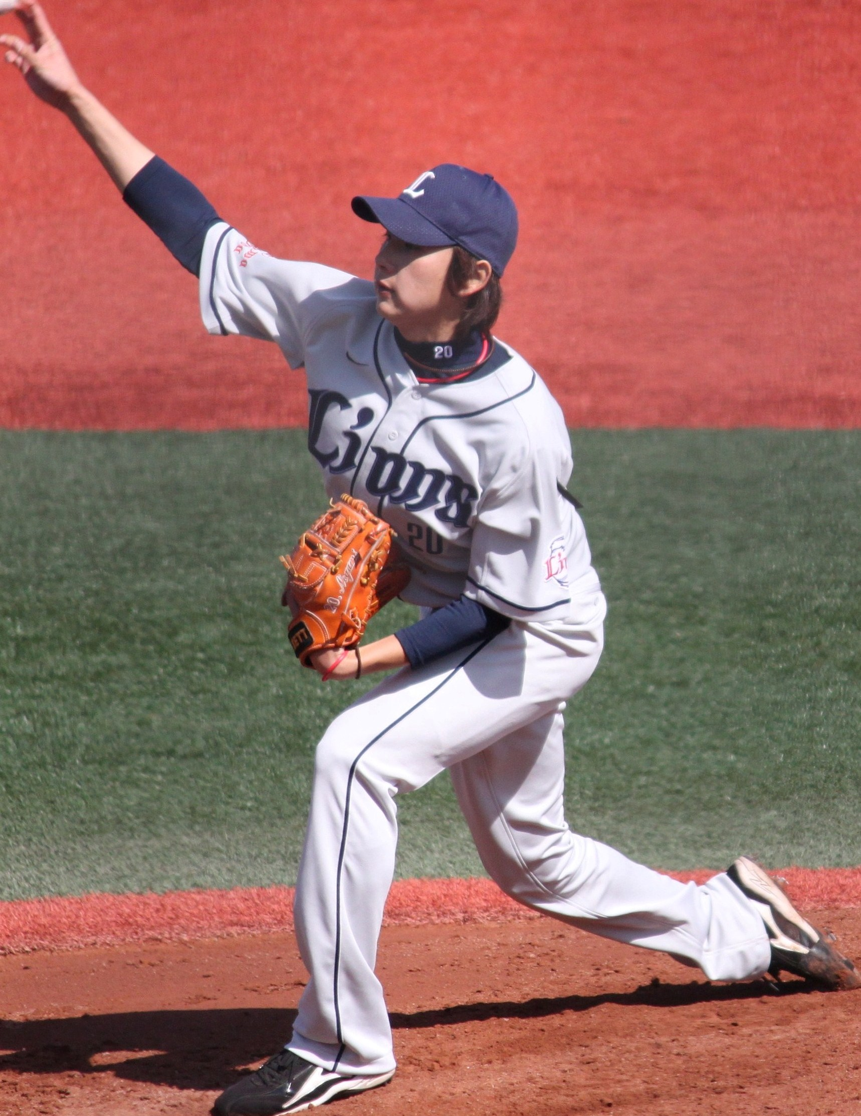 Ryoma Nogami, pitcher of the Saitama Seibu Lions, at Yokosuka Stadium.